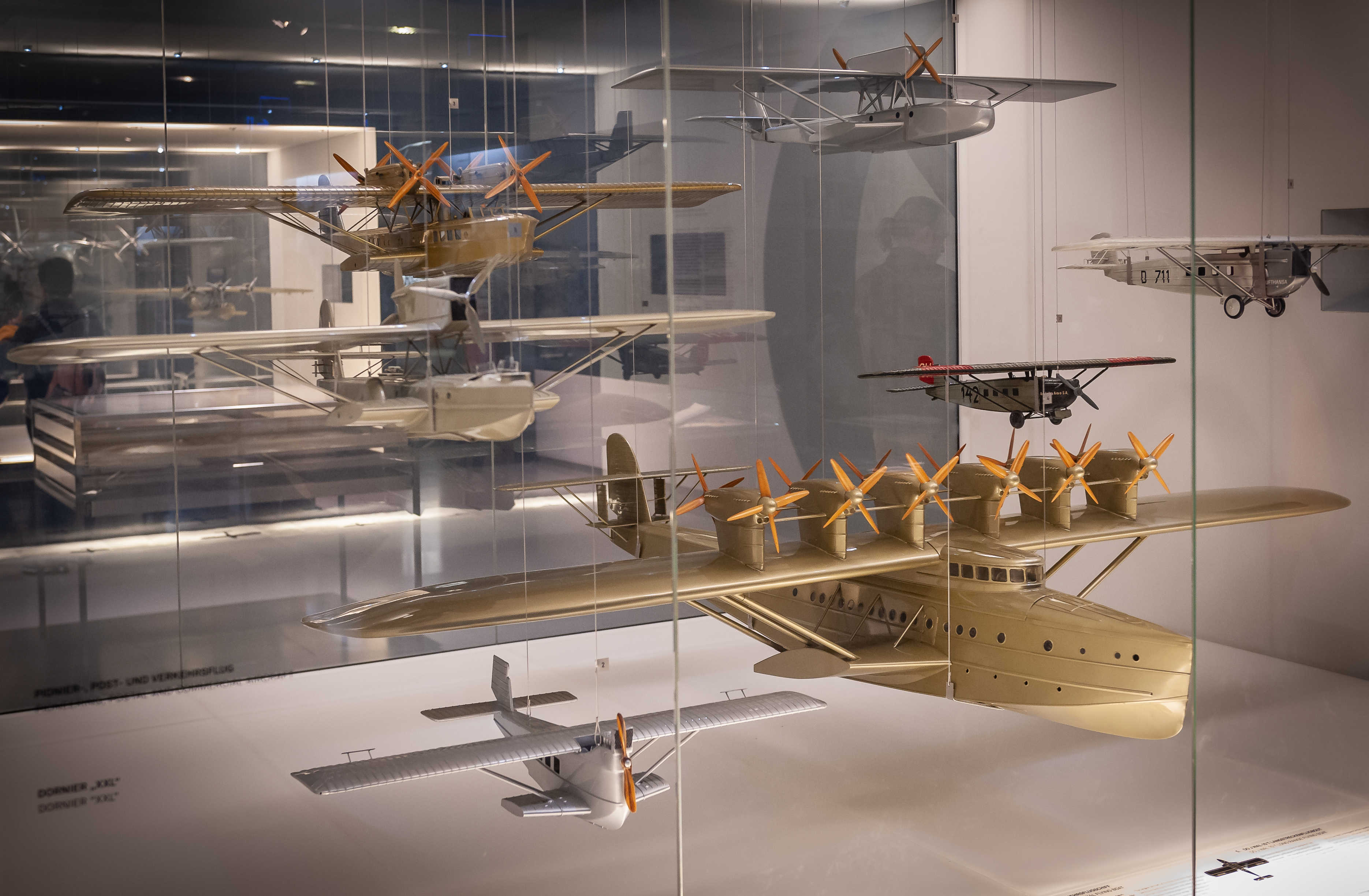 Models in the Dornier Museum, Friedrichshafen, Germany